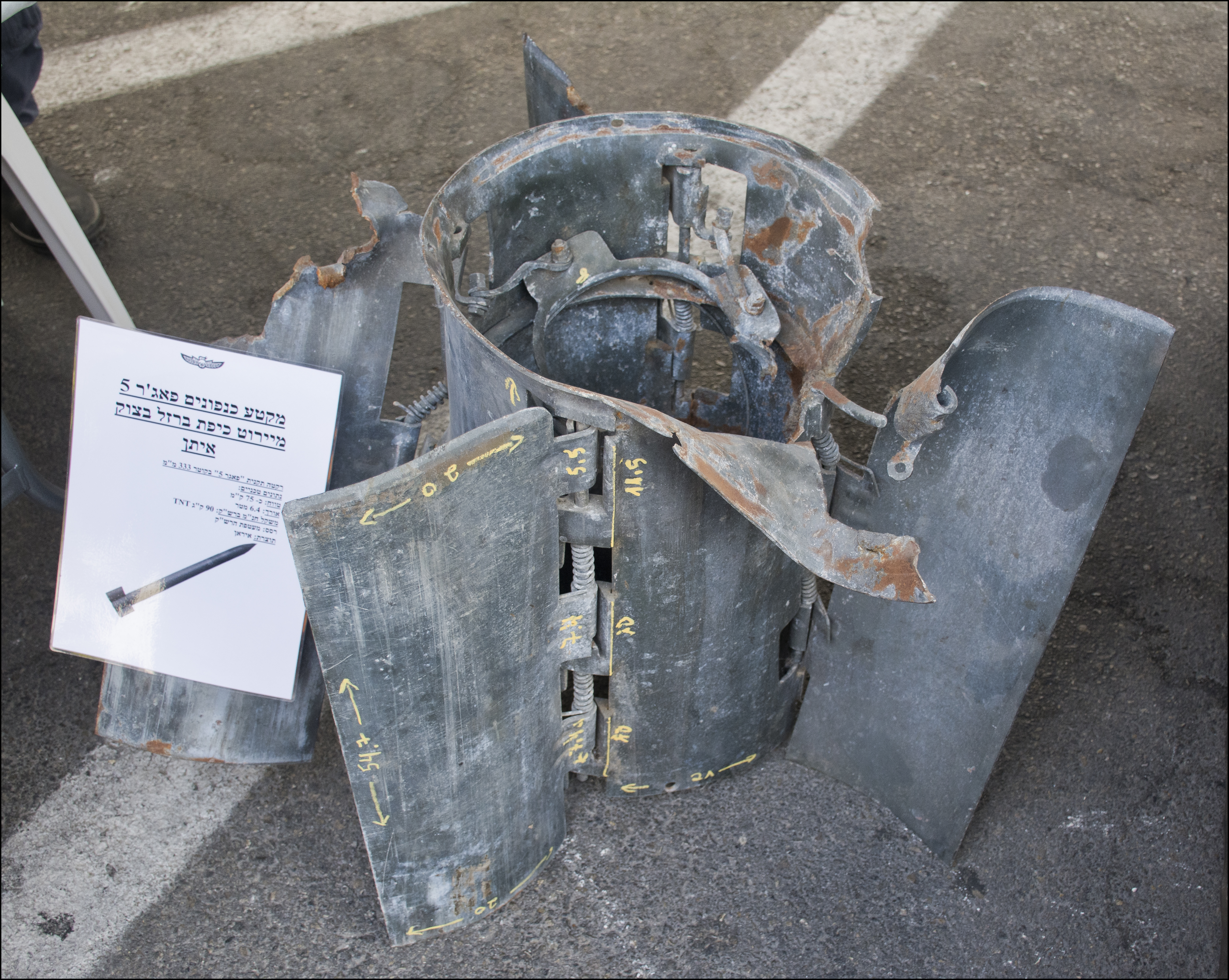 Tail fragements of Fajr-5 Iranian rocket, fired by Hamas during Operation Protective Edge, Israeli Police Open Day in Rishon LeZion